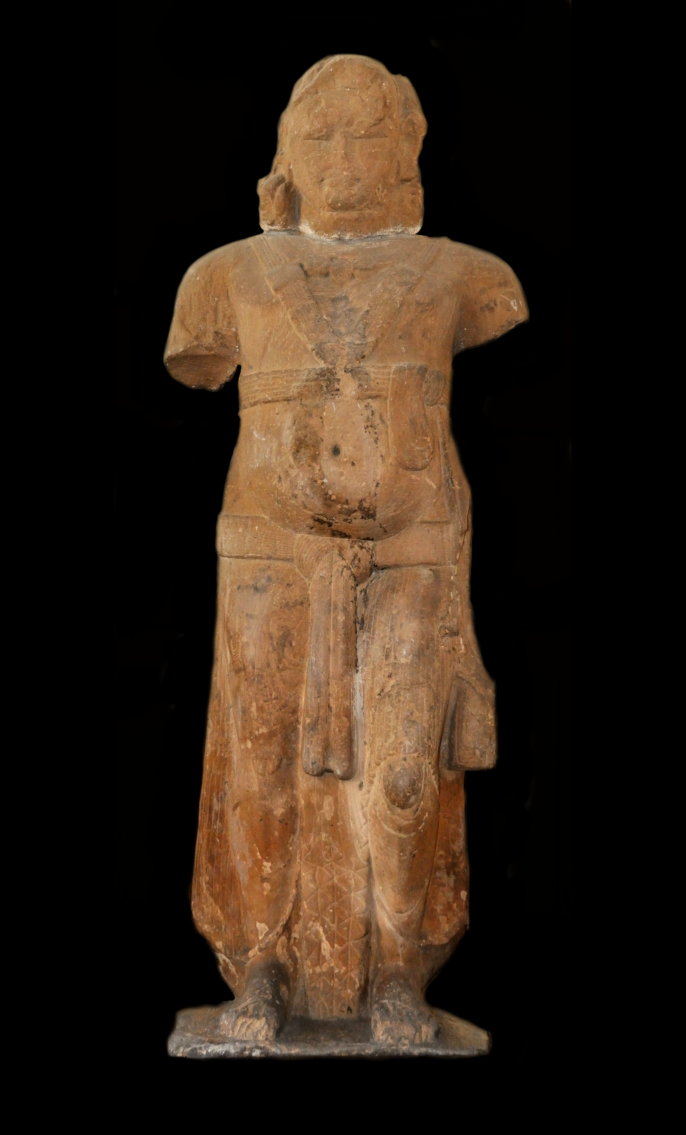 Original image Yaksha from Parkham Mathura, 3rd-2nd century. Mathura Museum. According to "A History of Ancient and Early Medieval India: From the Stone Age to the 12 the century" by Upinder Singh p.365, the statue is 2.59 meters high, on stylistic grounds it should be dated to the 2nd/1st century BC, but an inscription in Brahmi suggest a 3rd century BC date. The inscription says "Made by Gomitaka, a pupil of Kunika. Set up by eight brothers, members of the Manibhadra congregation ("puga")." This inscription thus indicates that the statue represents the Yaksa Manibhadra.[1]. The script of the inscription is Mauryan Brahmi.EI8 p.174 The hem of the dress is sometimes considered as derived from Greek art. Describing a similar stature, John Boardman writes: "It has no local antecedents and looks most like a Greek Late Archaic mannerism". According to Boardman these folds are also similar to those of the Bharhut Yavana File:Bharhut Yavana.jpg (John Boardman, "The Diffusion of Classical Art in Antiquity", Princeton University Press, 1993, p.112.)